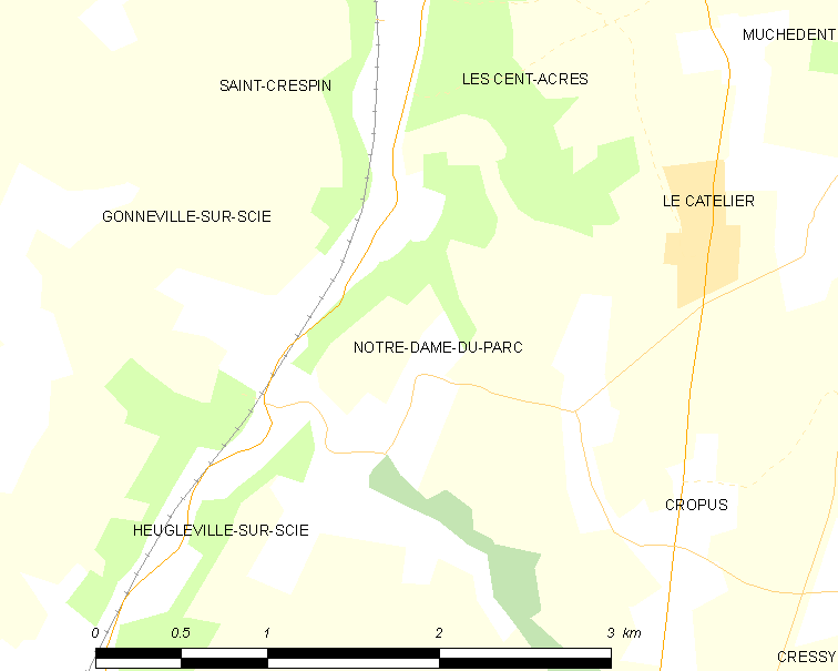 Map of French municipality Notre-Dame-du-Parc